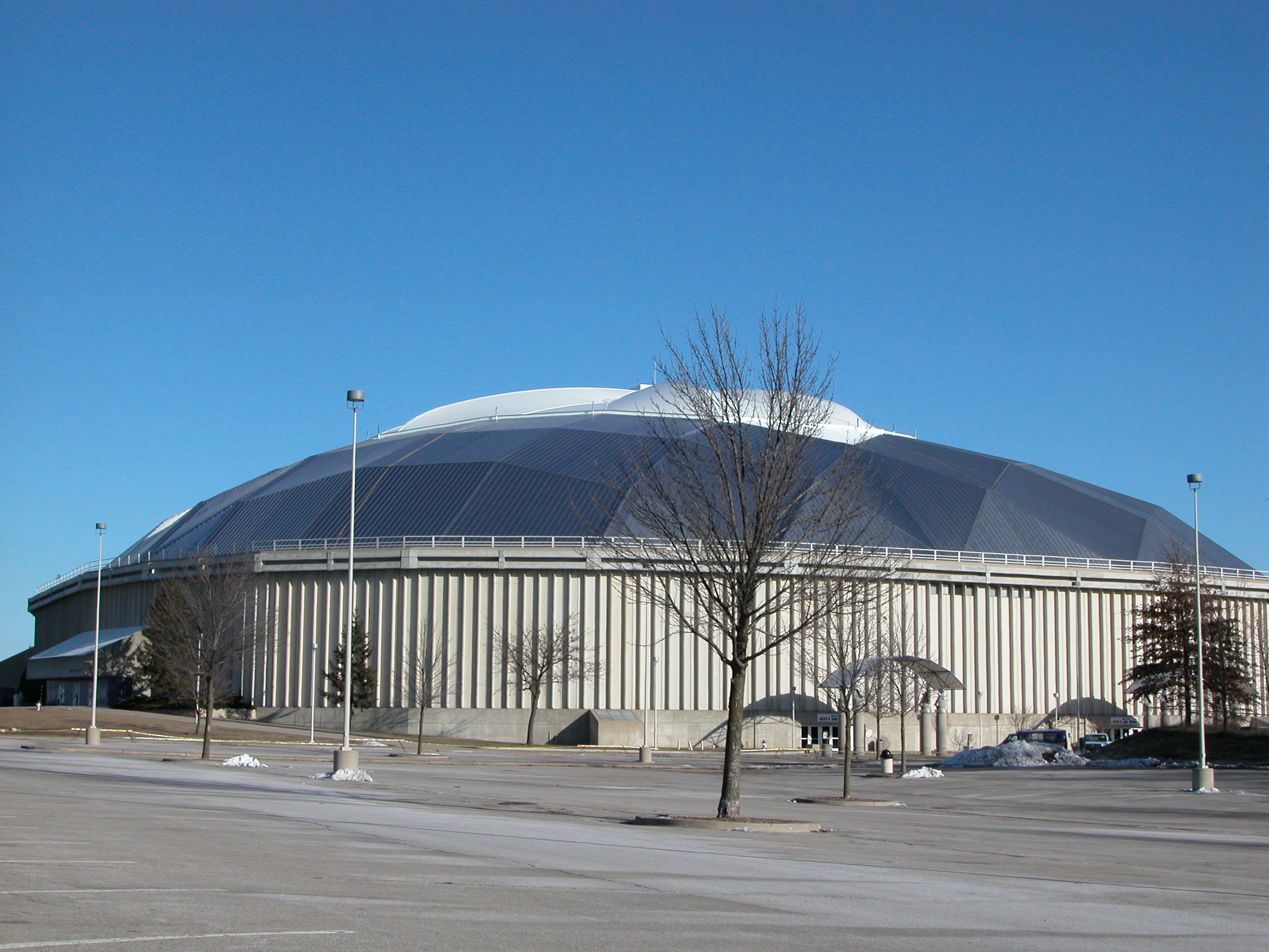 Photograph of the exterior of the UNI Dome Category:Images of Iowa